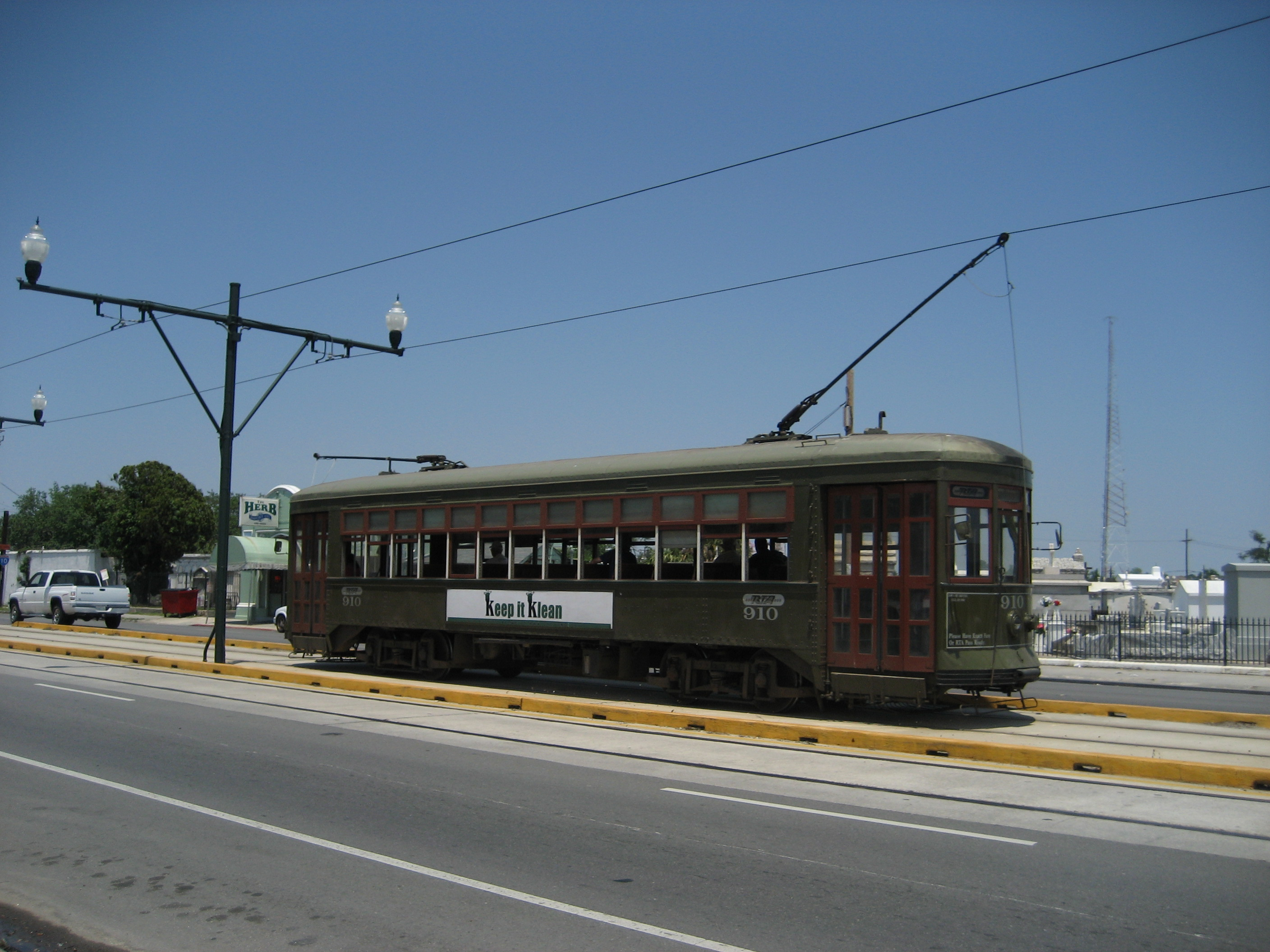 New Orleans: Pearly-Thomas streetcar near Cemeteries end of Canal Street. Photo by Infrogmation of New Orleans, 30 April 2007